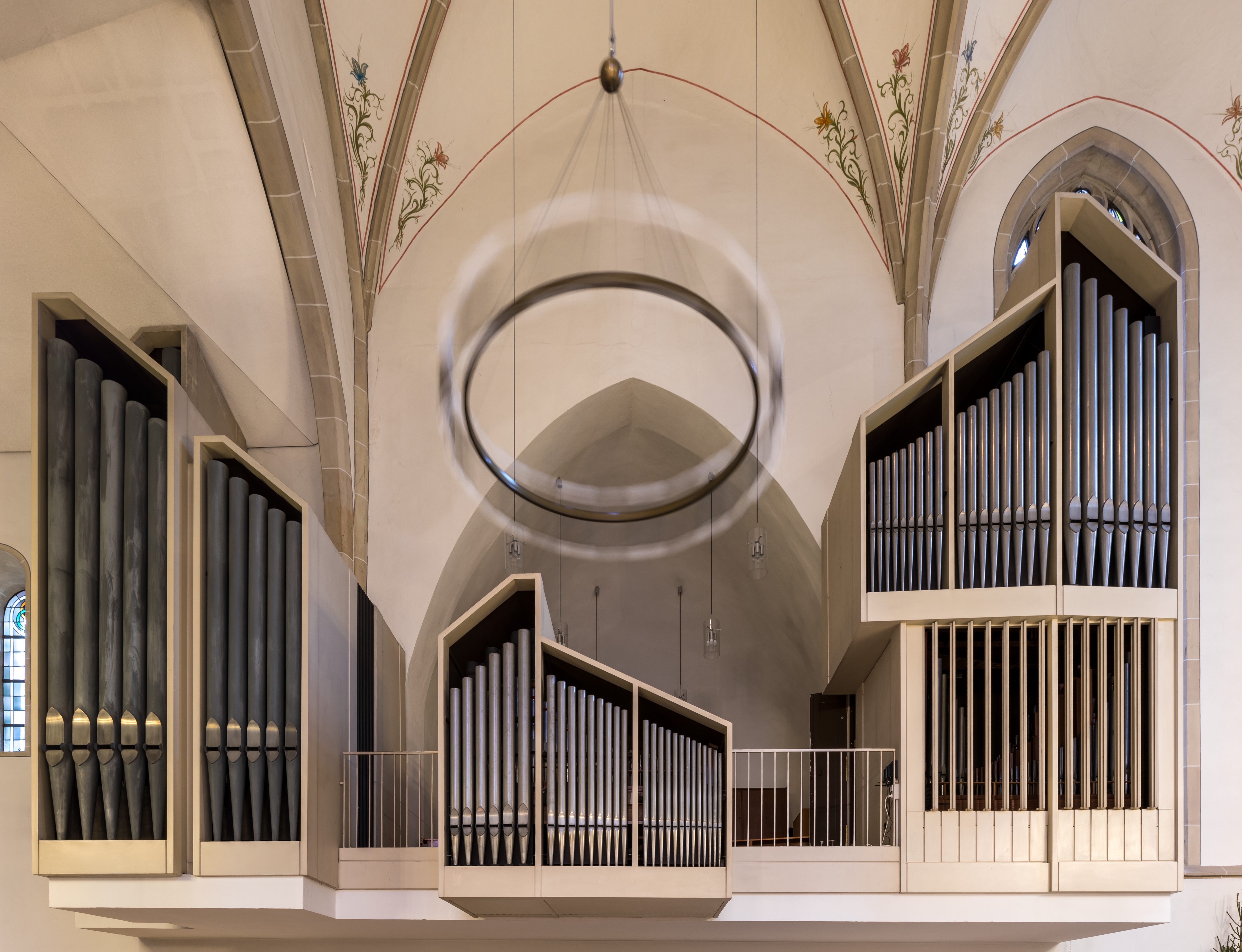 Organ of the St Viktor Church, Dülmen, North Rhine-Westphalia, Germany This image shows a heritage building in Germany, located in the North Rhine-Westphalian city Dülmen (no. 15).